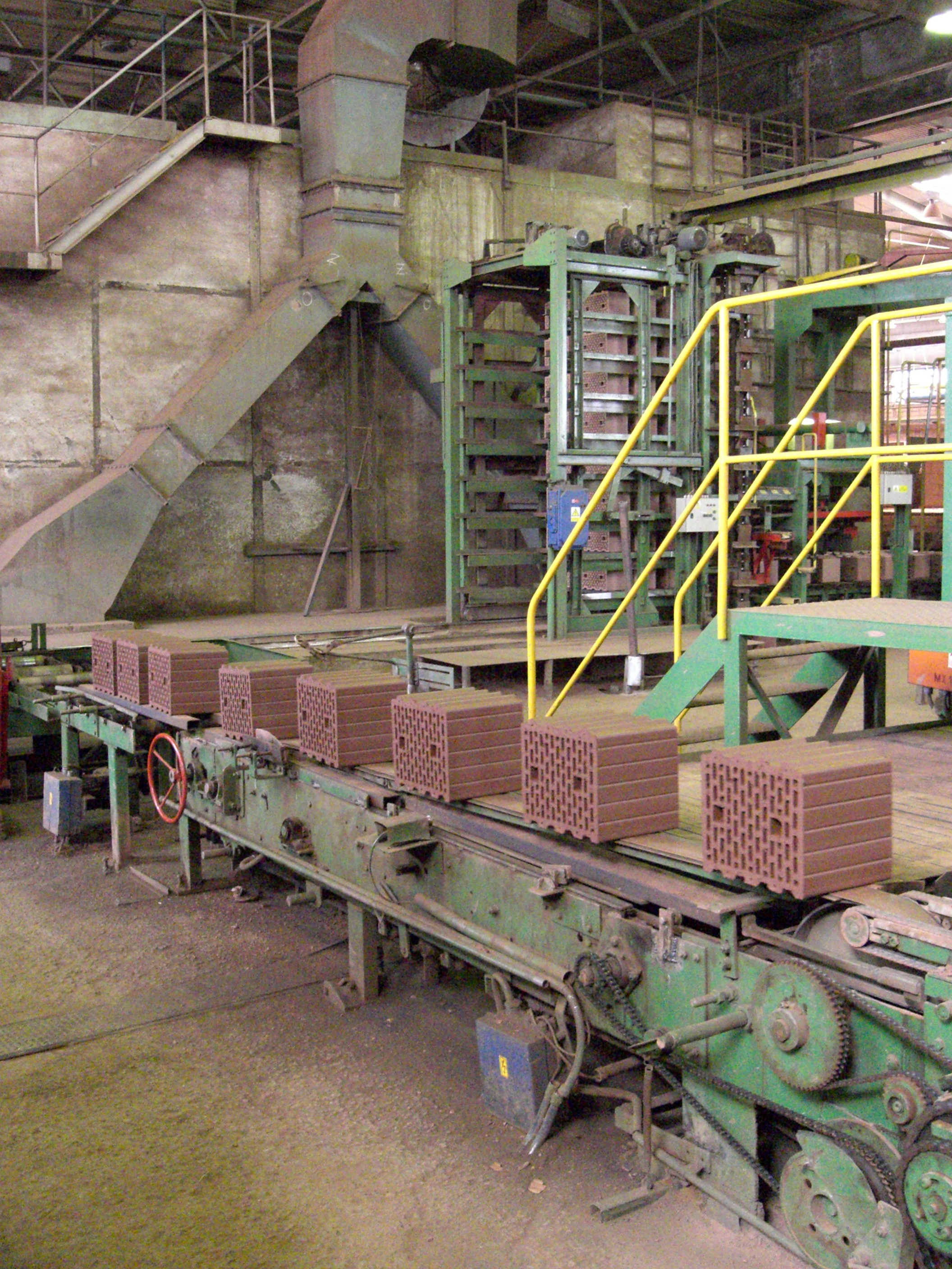 Brickyard in Kryry village, Czech Republic. Transport to the oast.